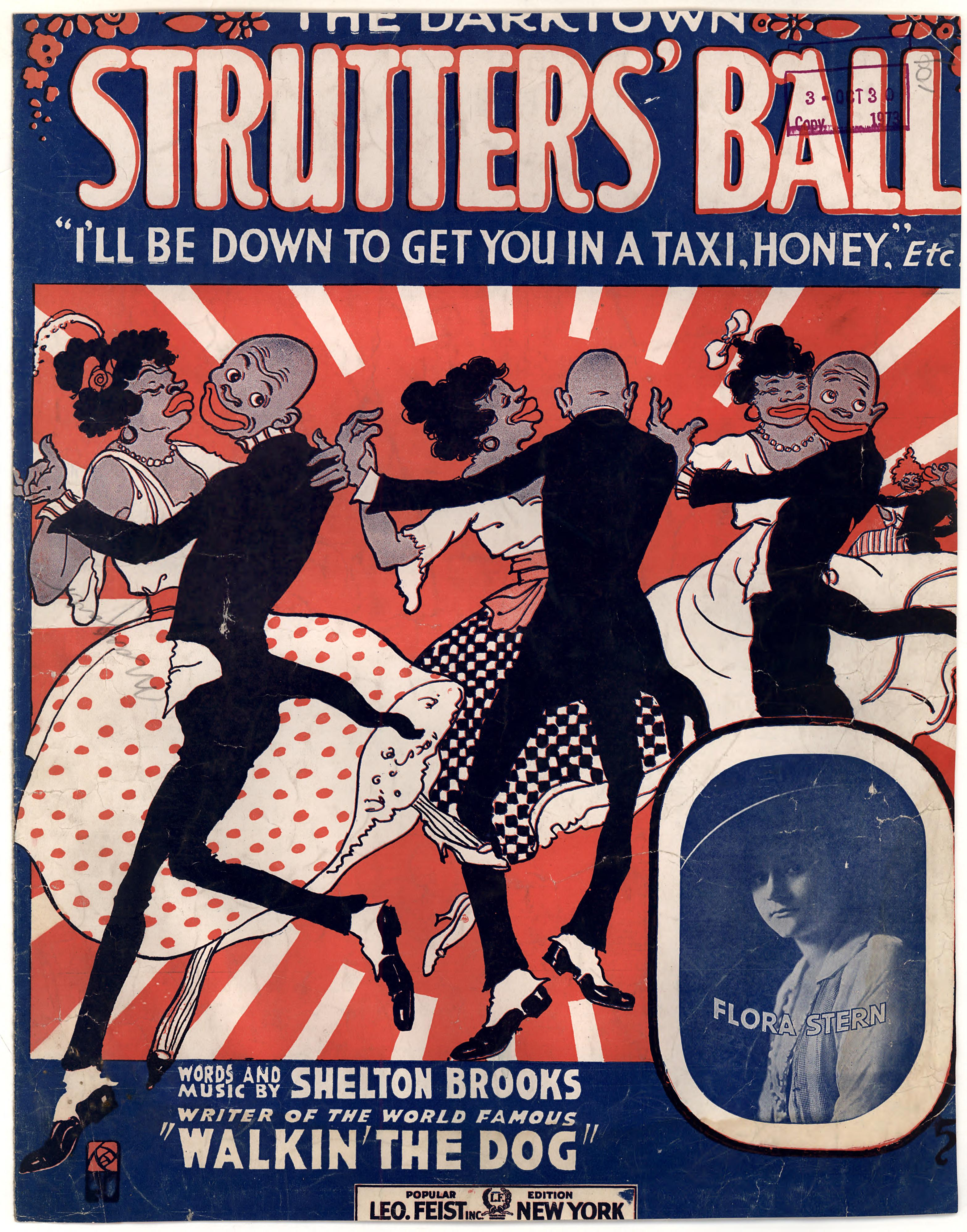 Sheet music cover of "The Darktown Strutters' Ball", by Shelton Brooks